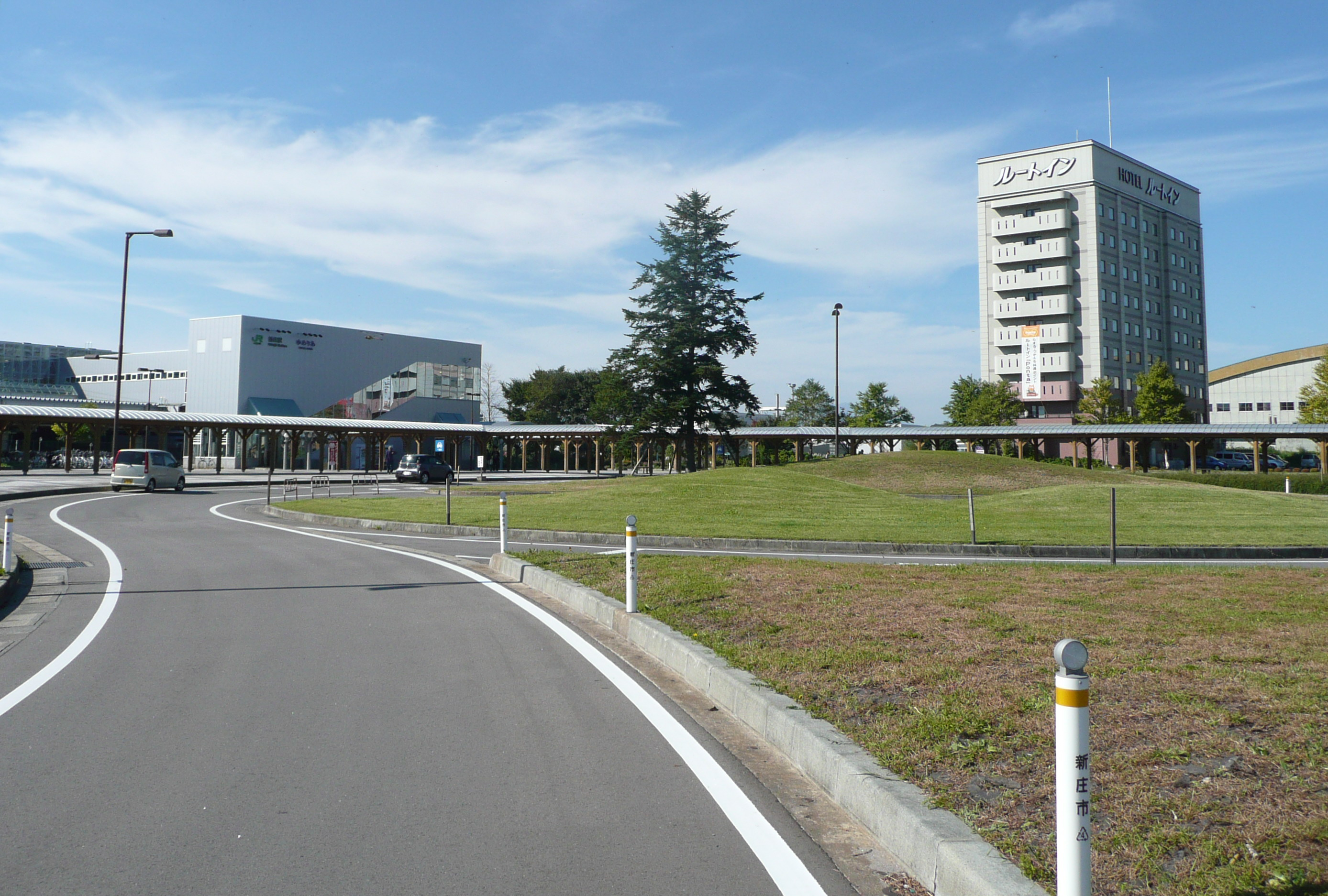 新庄駅東口